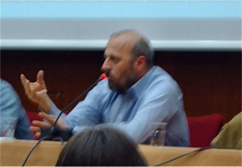 Marco Paolini attending a meeting at Galassia Gutenberg's book fair